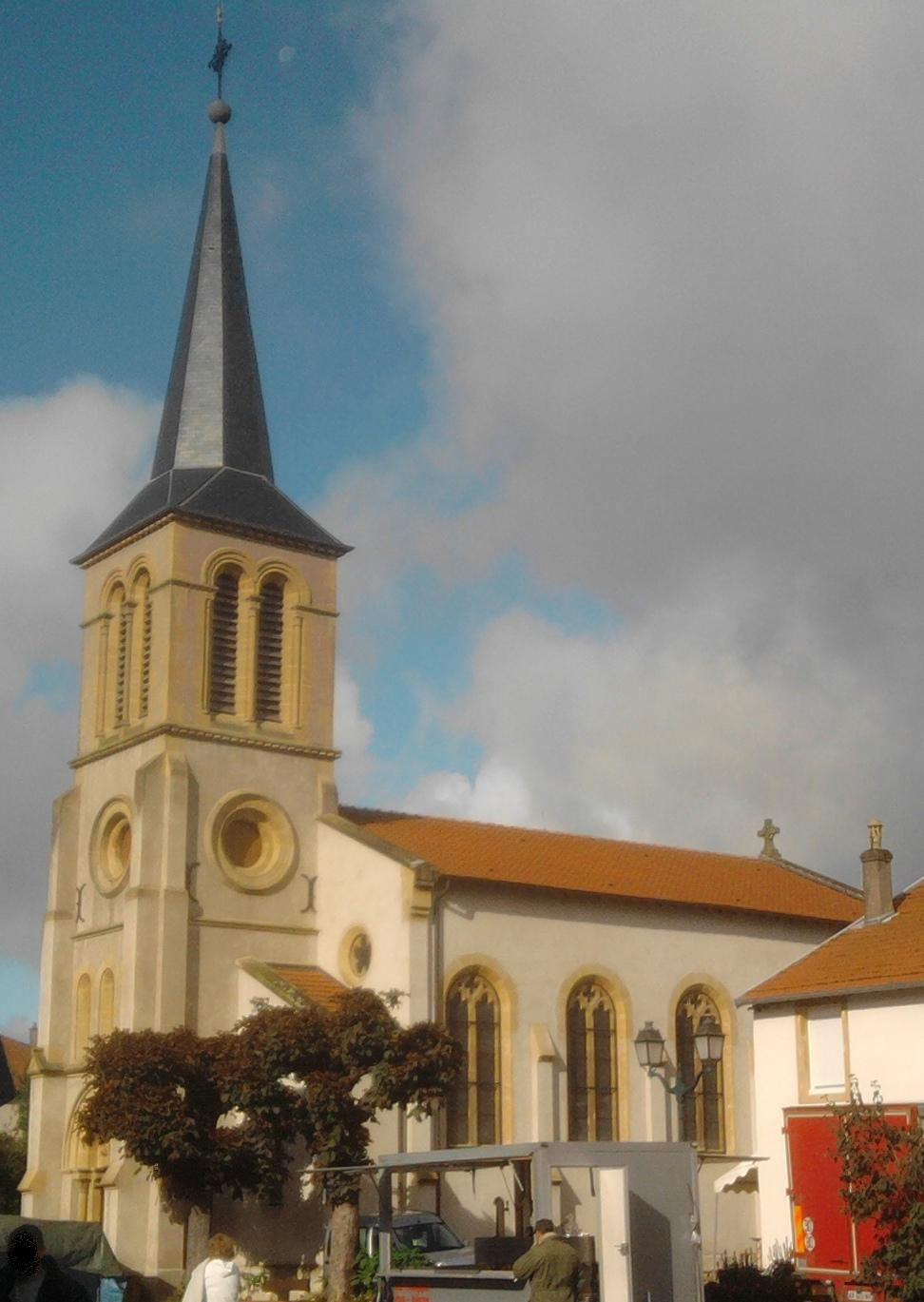 Photography of church Sainte-Catherine in Servigny-lès-Sainte-Barbe (Moselle, France), neo-Romanesque style, XIXth century